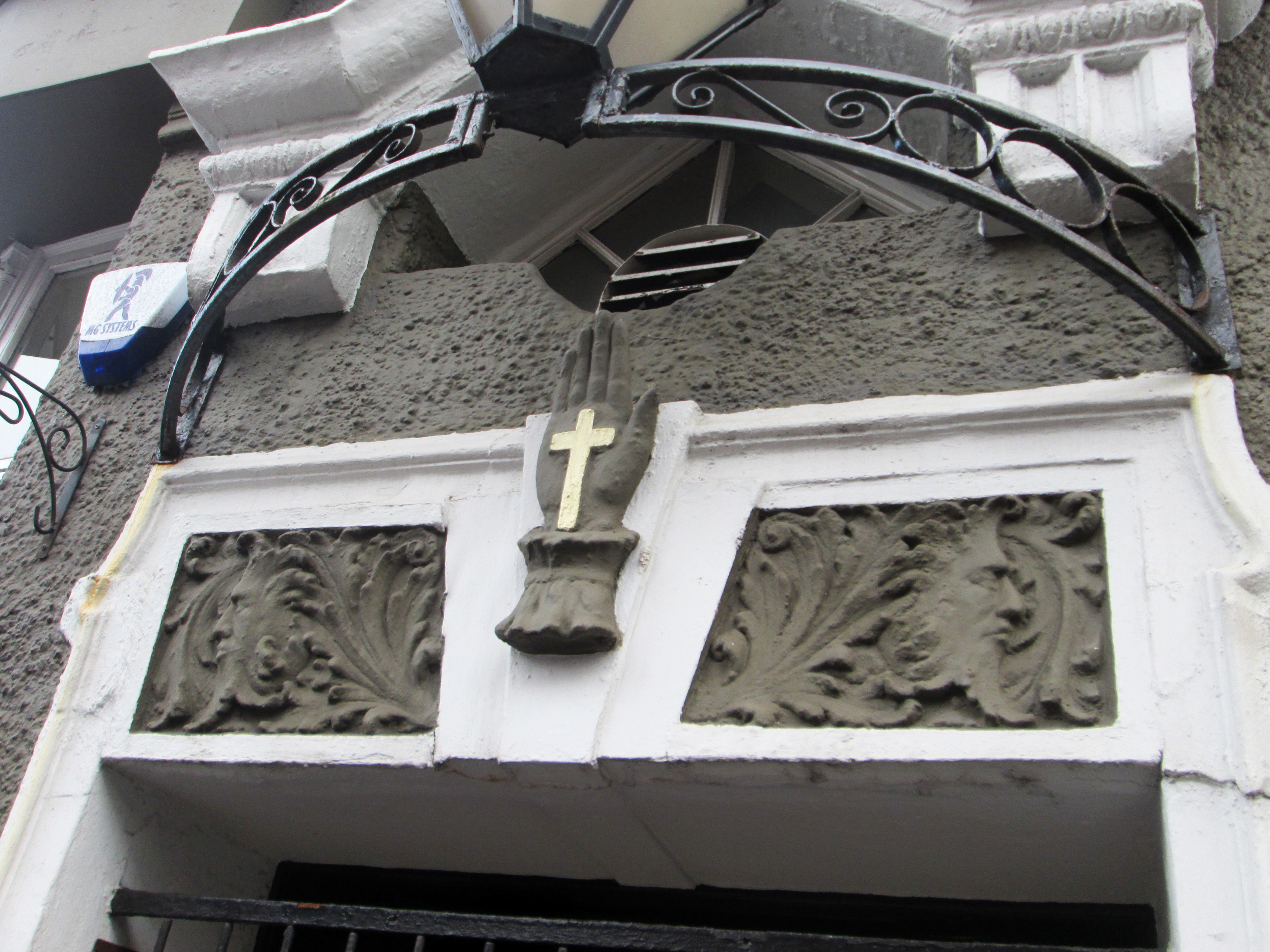 Corona Bar, Crossmyloof, at the location of the original village, at the junction between Langside Avenue and Pollockshaws Road in Glasgow. The 1912 building by James. H. Craigie of the Glasgow architects Clarke and Bell is on the site of earlier pubs – it claims to have been established in 1817. Tiling on the doorstep and plaster image above the doorways show a cross on the palm of a hand, supposedly the origin of the name of the village. Reference: Blaikie, Gerald (2-18). Strathbungo and Crossmyloof : Origins and History. .